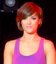 Frankie Sandford performing with The Saturdays in September 2011.